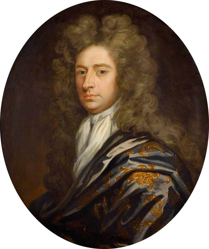 Portrait of Charles Mordaunt (1658-1735)